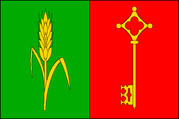 Municipal flag of Velenka village, Nymburk District, Czech Republic.